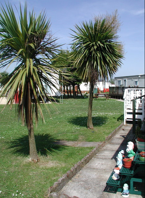 Caravan park with Cordyline australis trees, beside the North Sea at Great Cowden, Holderness, East Riding of Yorkshire, England.Caravan park on the north side of Eelmere Lane, Great Cowden. The 36 acre family run park has a ten month season from 1st March to 1st January. The owners continue to expand the facilities, although the site is actually slowly shrinking due to the effects of coastal erosion.